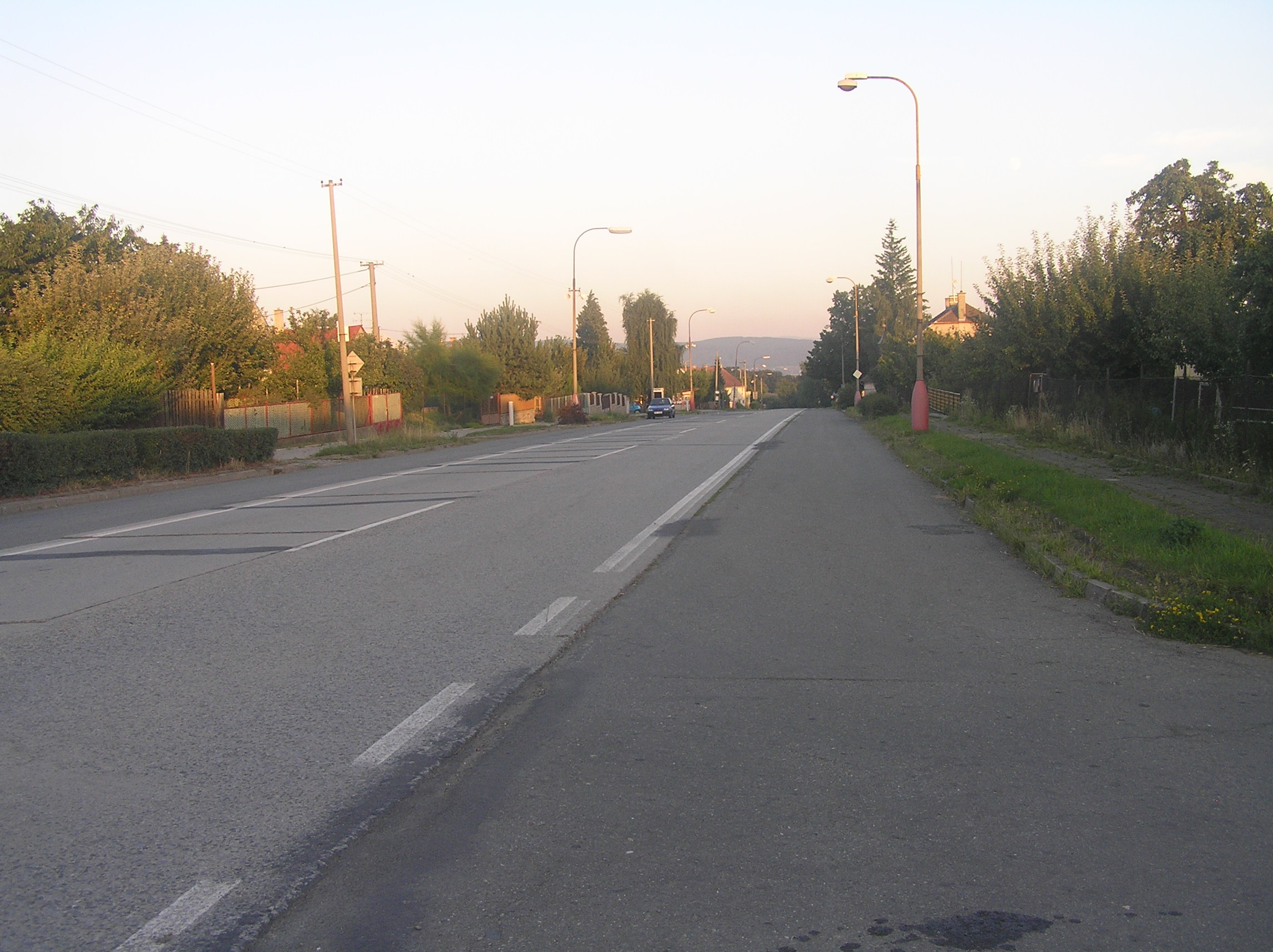 Skoky, the village in the Olomouc Region, Czech Republic